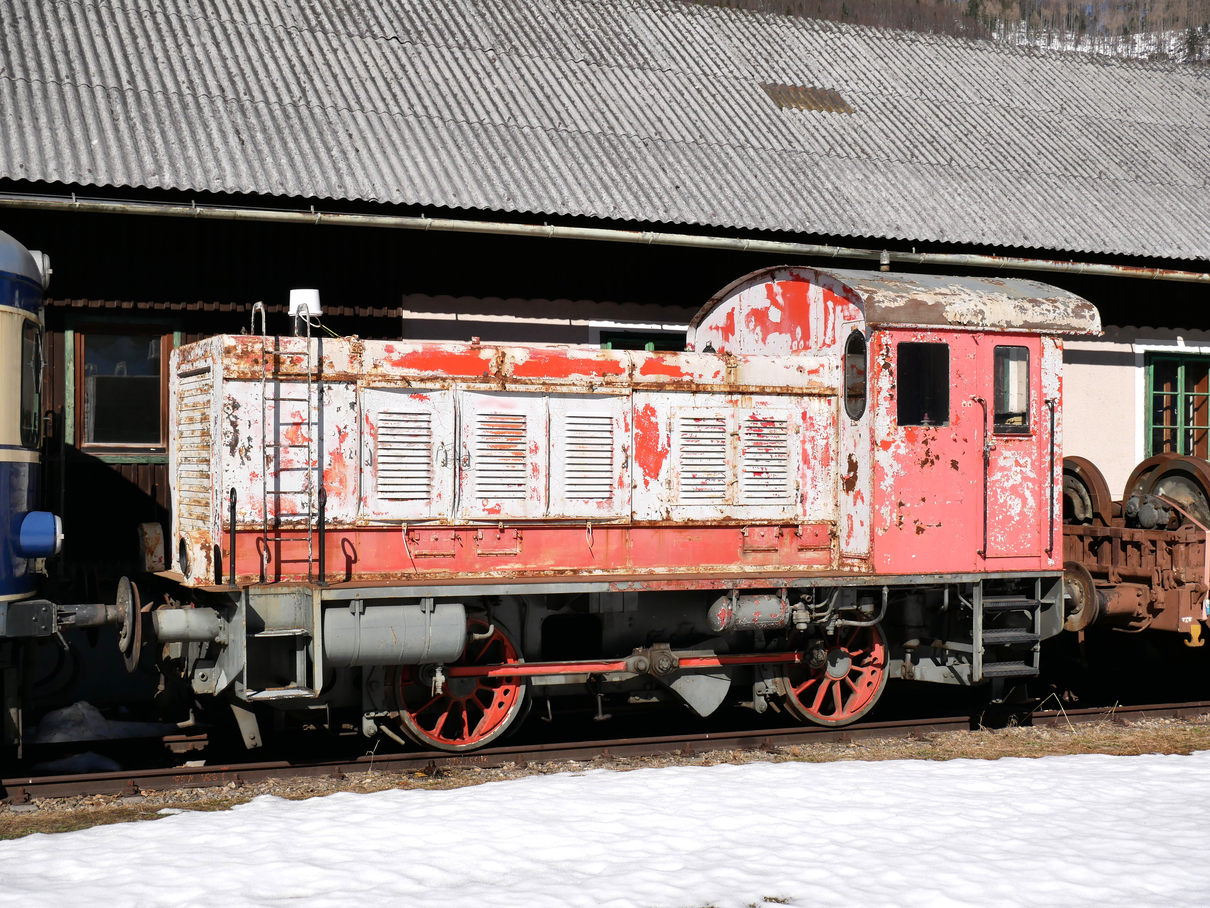 Former Wehrmacht engine class WR 200, ex ÖBB 2061.01, ex Schleppbahn Liesing, stored at St. Aegyd am Neuwalde station.